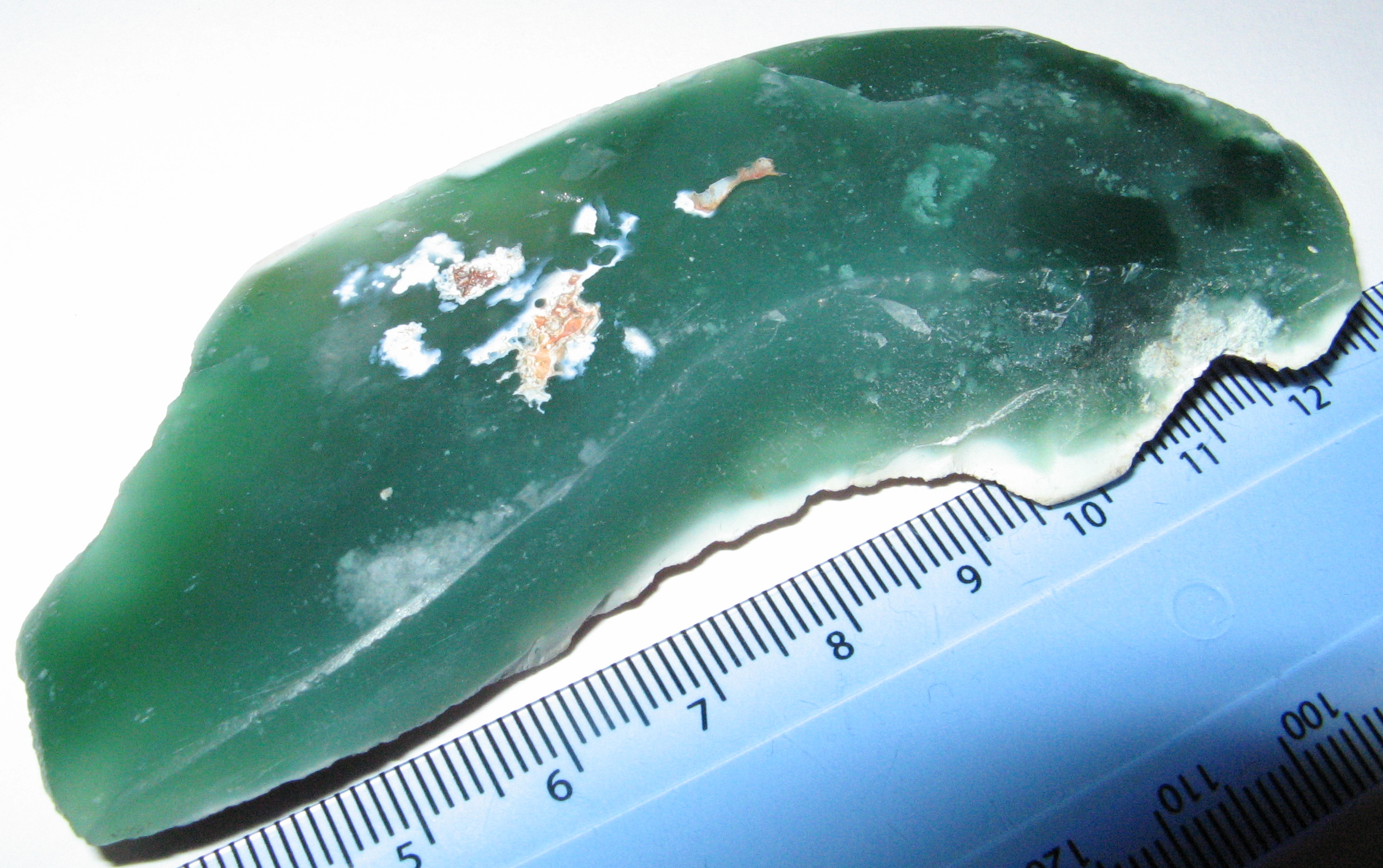 Mtorolite is a variety of the mineral chalcedony, coloured green by inclusions of chromium oxide. This specimen is from Zimbabwe.